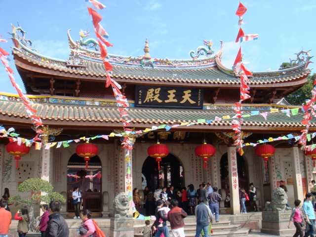 Nanputuo Temple, Jinmen